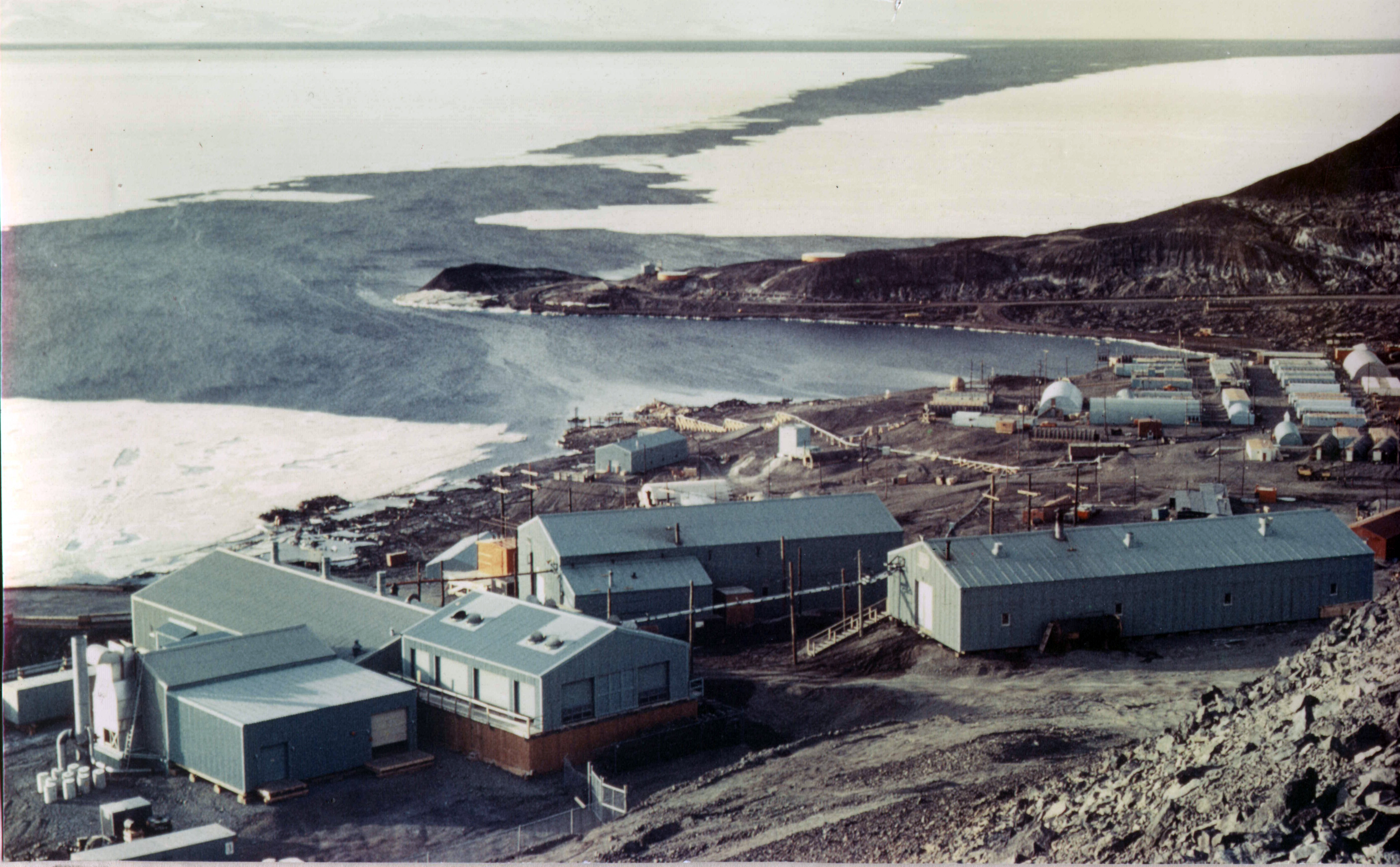 Photo of PM-3A Nuclear Power Plant